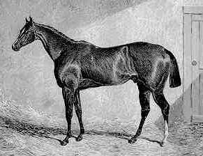 Spaniel, winner of 1832 Epsom Derby. Engraving by unknown artist. No later than 1835, so artist dead for 100+ years.